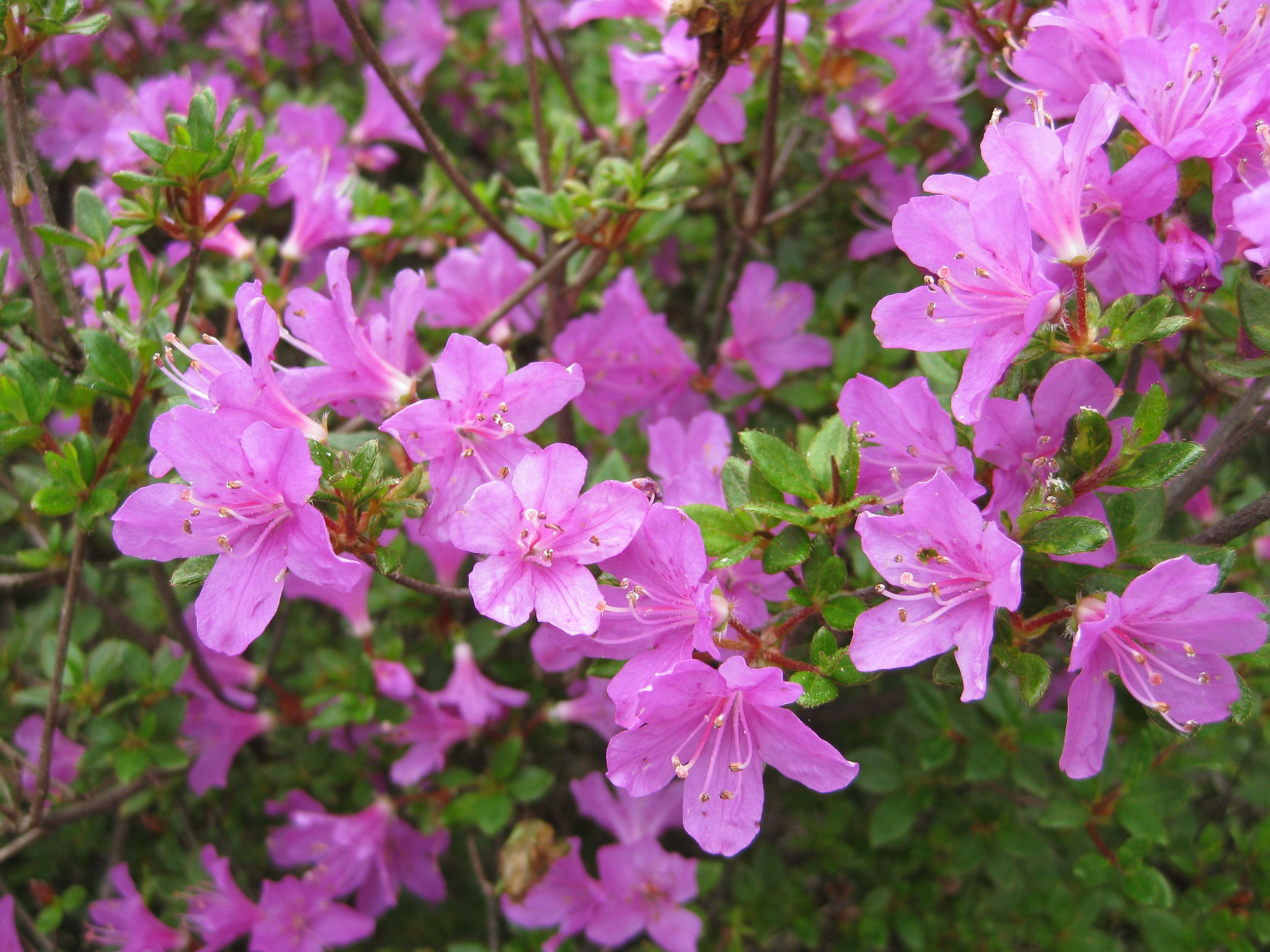 Kyushu Azarea (Rhododendron kiusianum) in Ebino Plateau, Japan